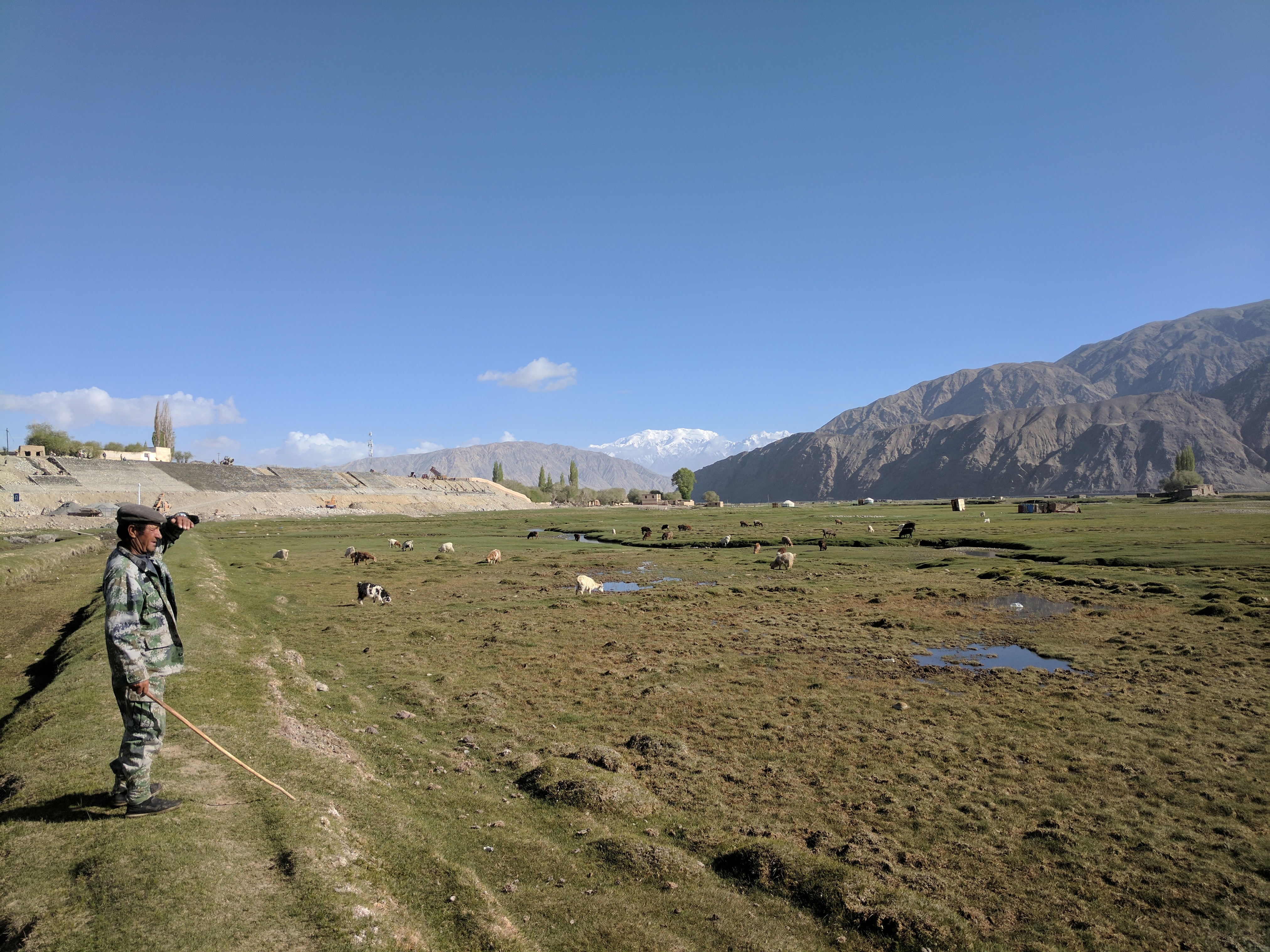 Chinese Tajik (Pamiri) herdsman Xinjiang